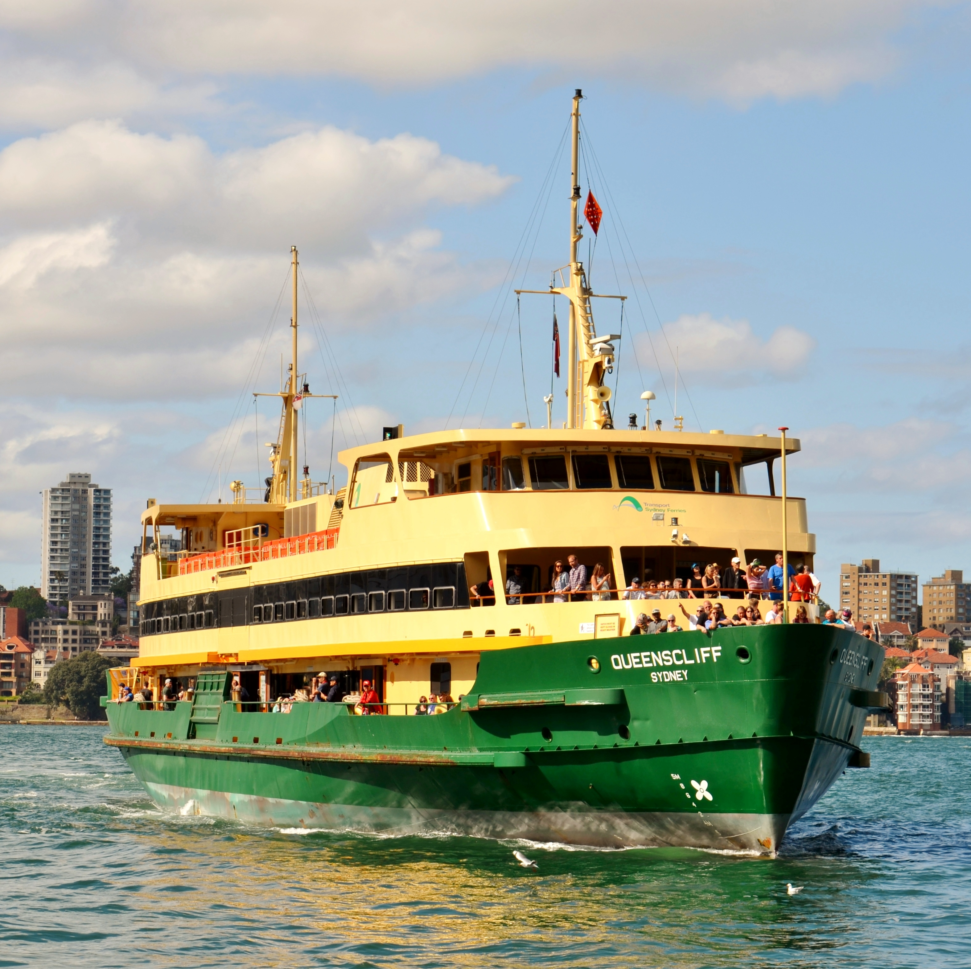 Sydney Ferries' Freshwater-class ferry MV Queenscliff approaching Circular Quay, Sydney